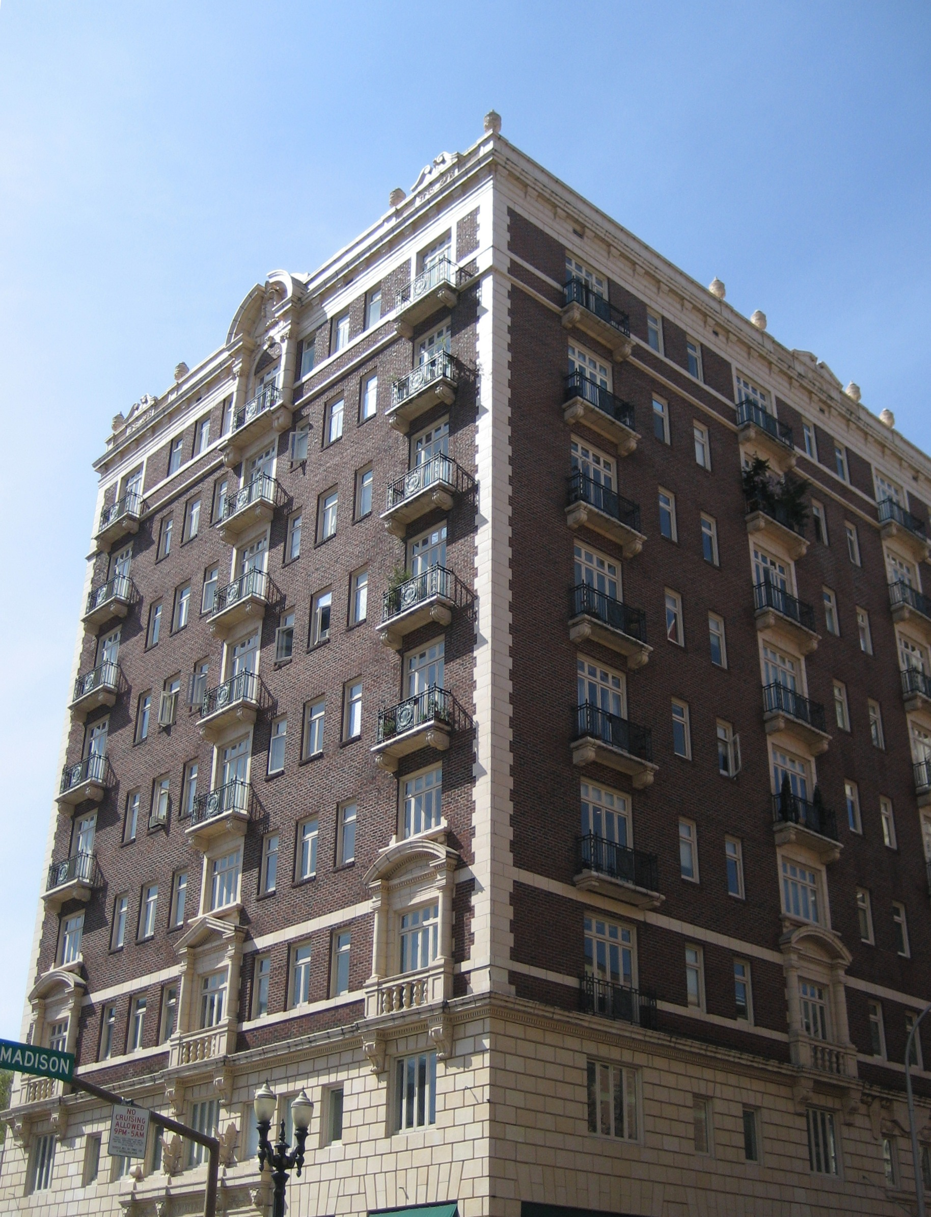 The Oregon Historical Society, in the former Sovereign Hotel. The Sovereign Hotel is listed on the National Register of Historic Places.